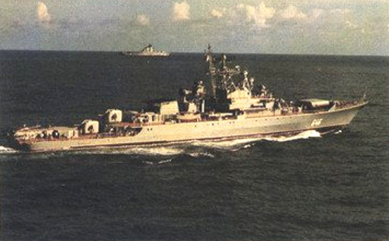 The Soviet Navy frigate Letuchiy underway, in 1980.